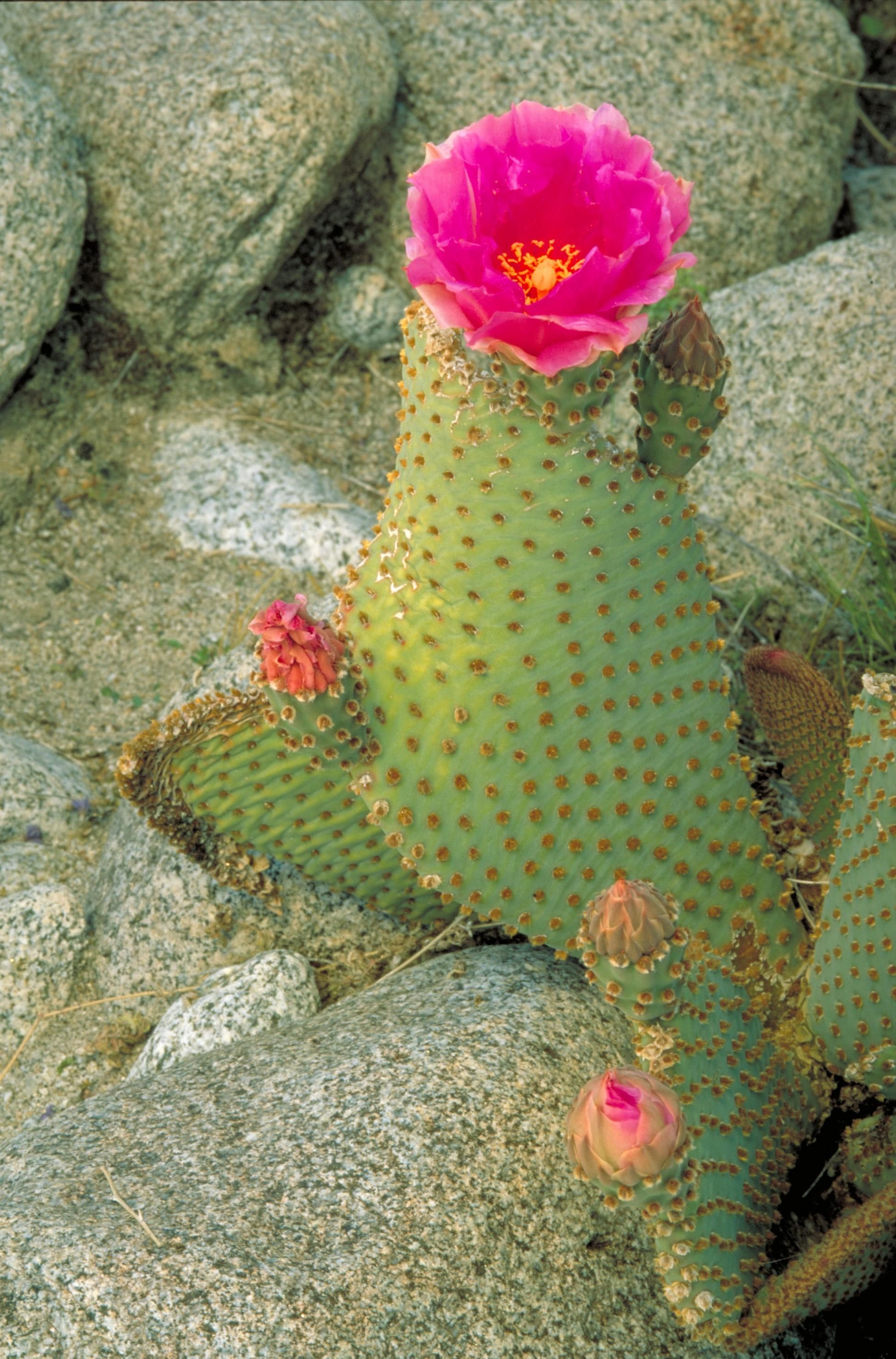 Image title: Cactus growing in rocks with buds Image from Public domain images website